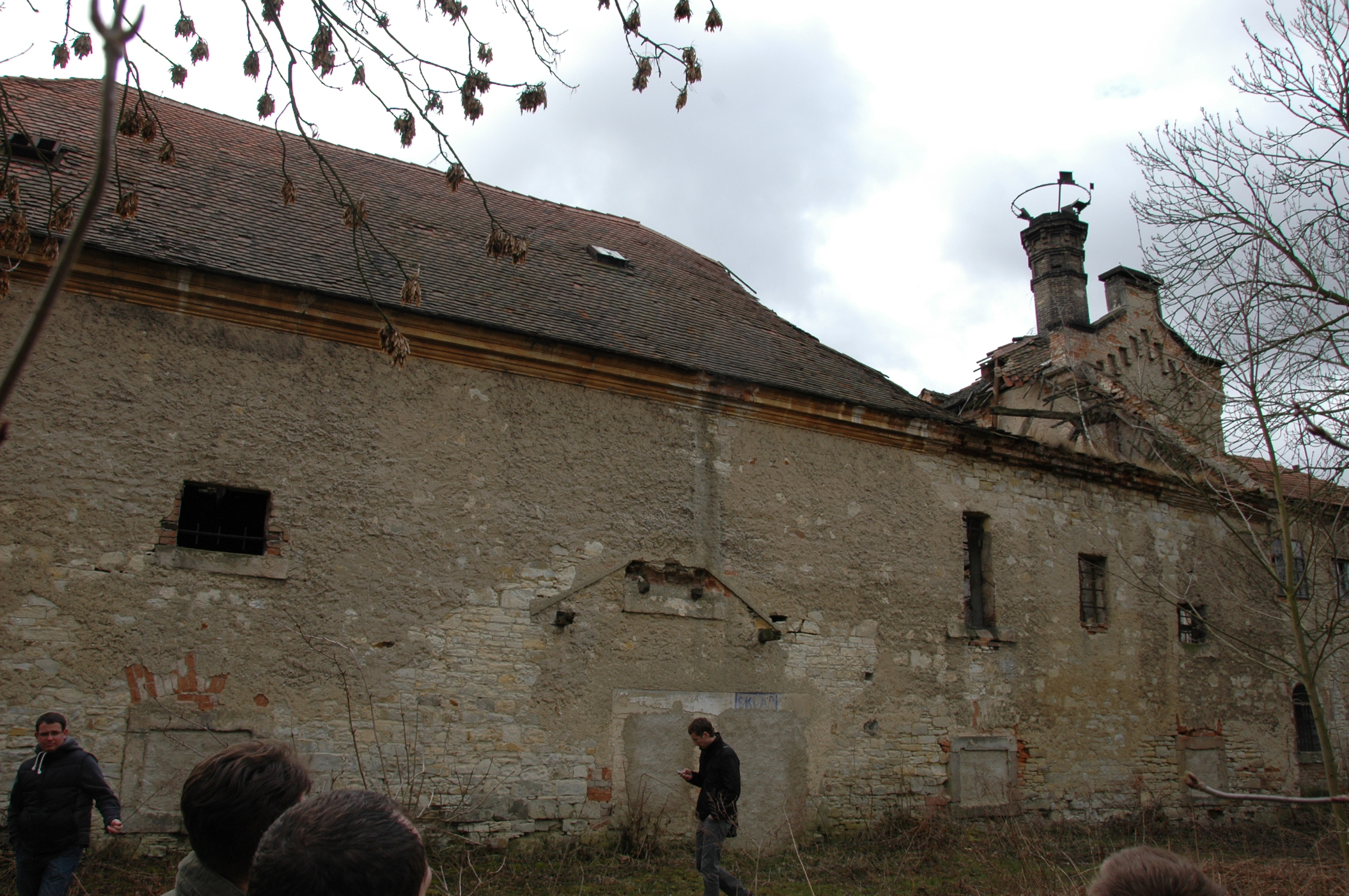 Peruc brewery from Peruc castle park